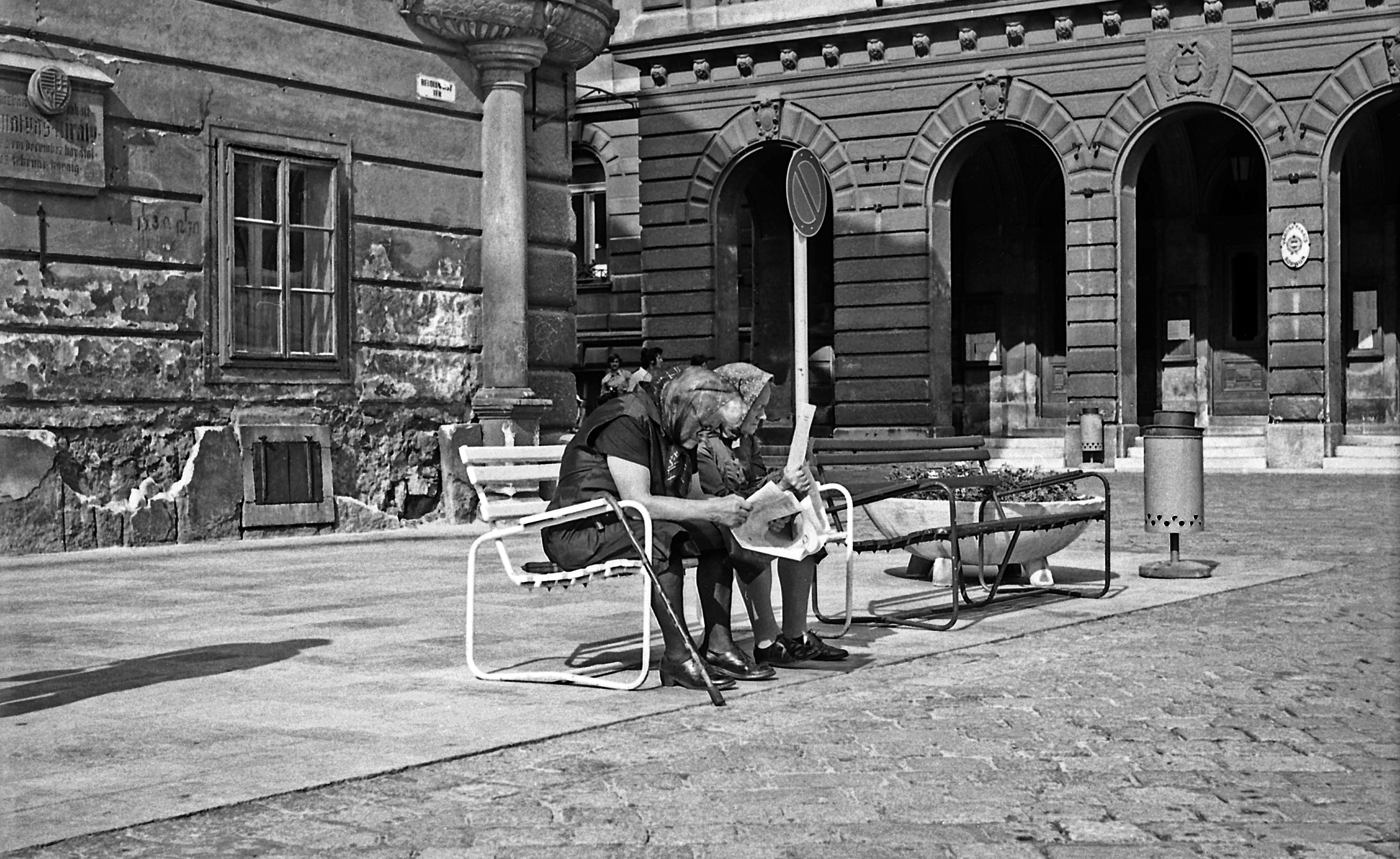 Belojanis Square and The Sopron City Hall, with the socialist crest Analog BW photo: 25. July 1977.